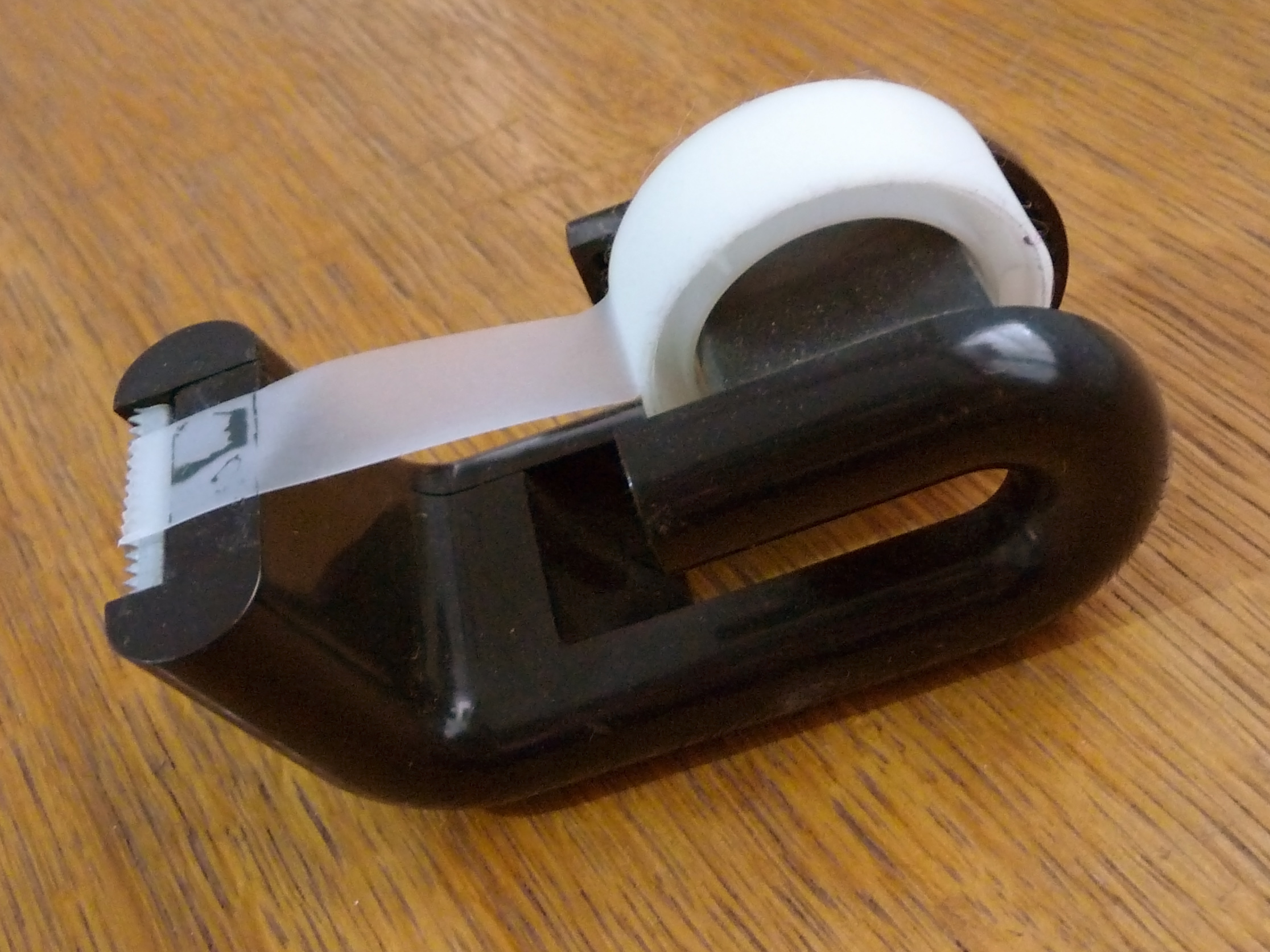 Sellotape transparent black cutting facility